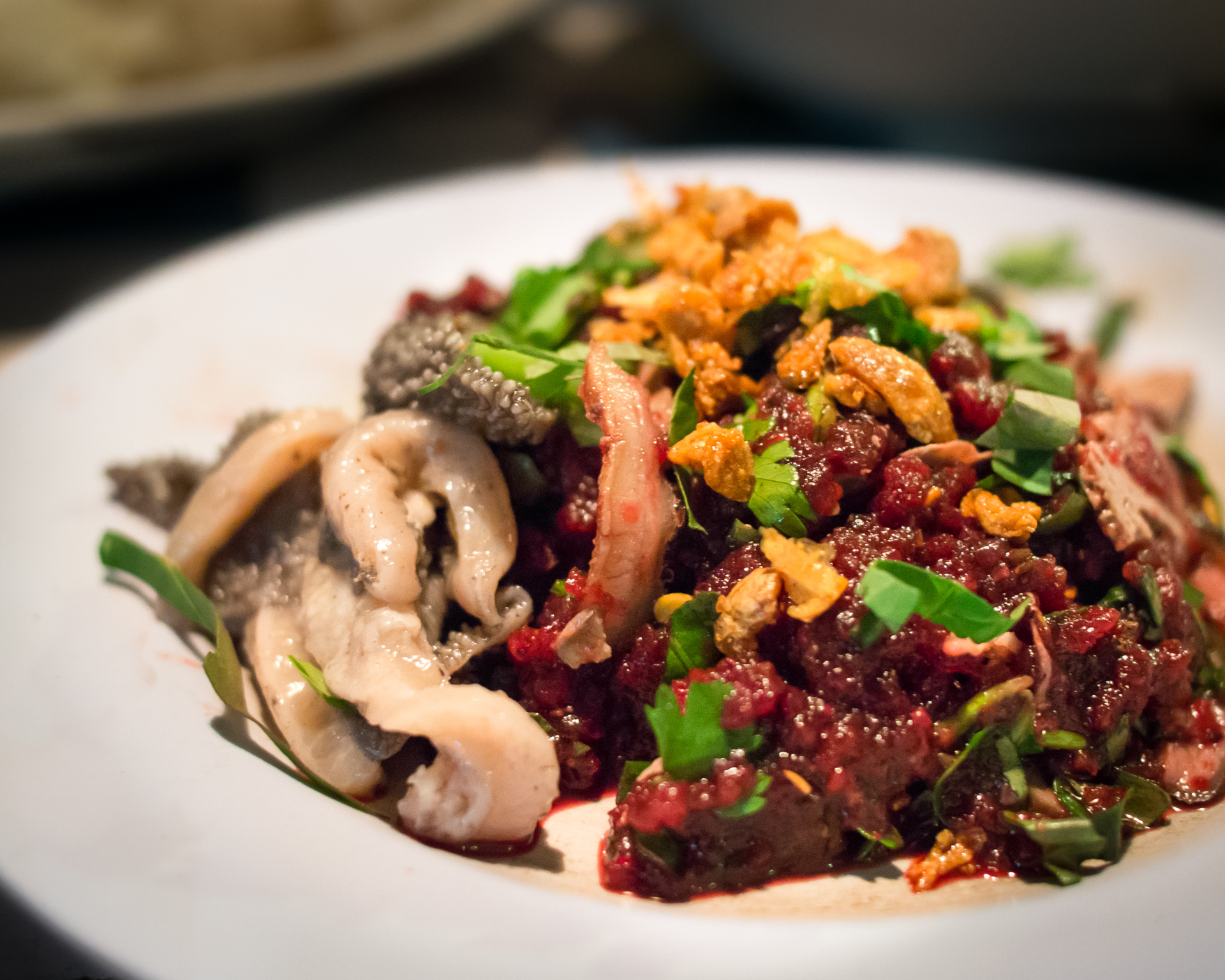 Lap nuea dip (Thai script: ลาบเนื้อดิบ) is a northern Thai lap-style "salad" of sliced raw beef (here also with slices of raw beef tripe), blood, and ground, dried spices.